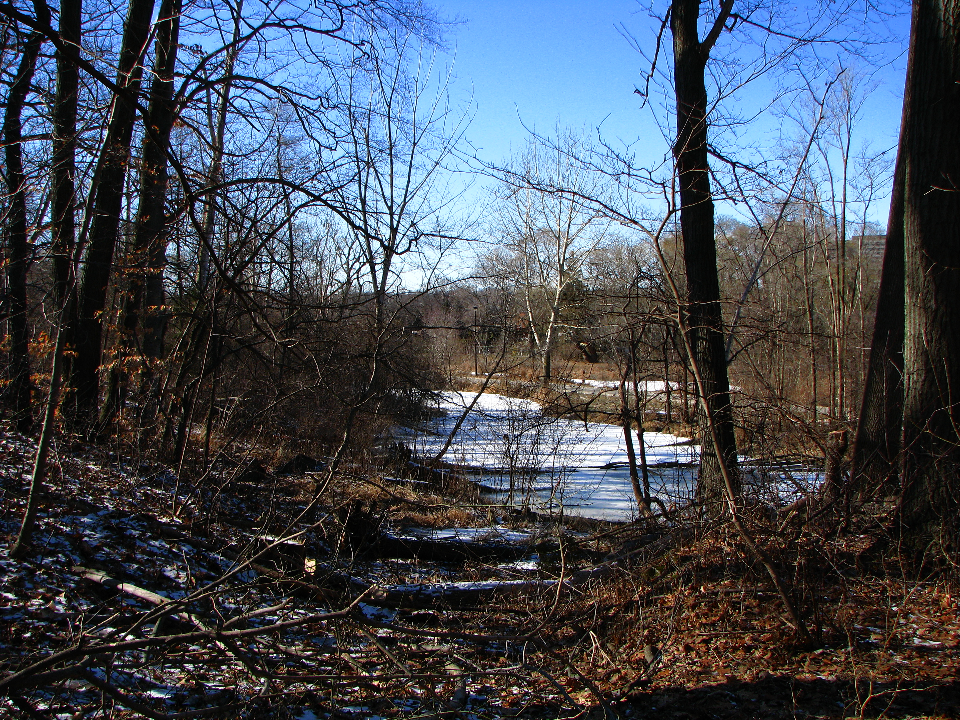 Cold Death